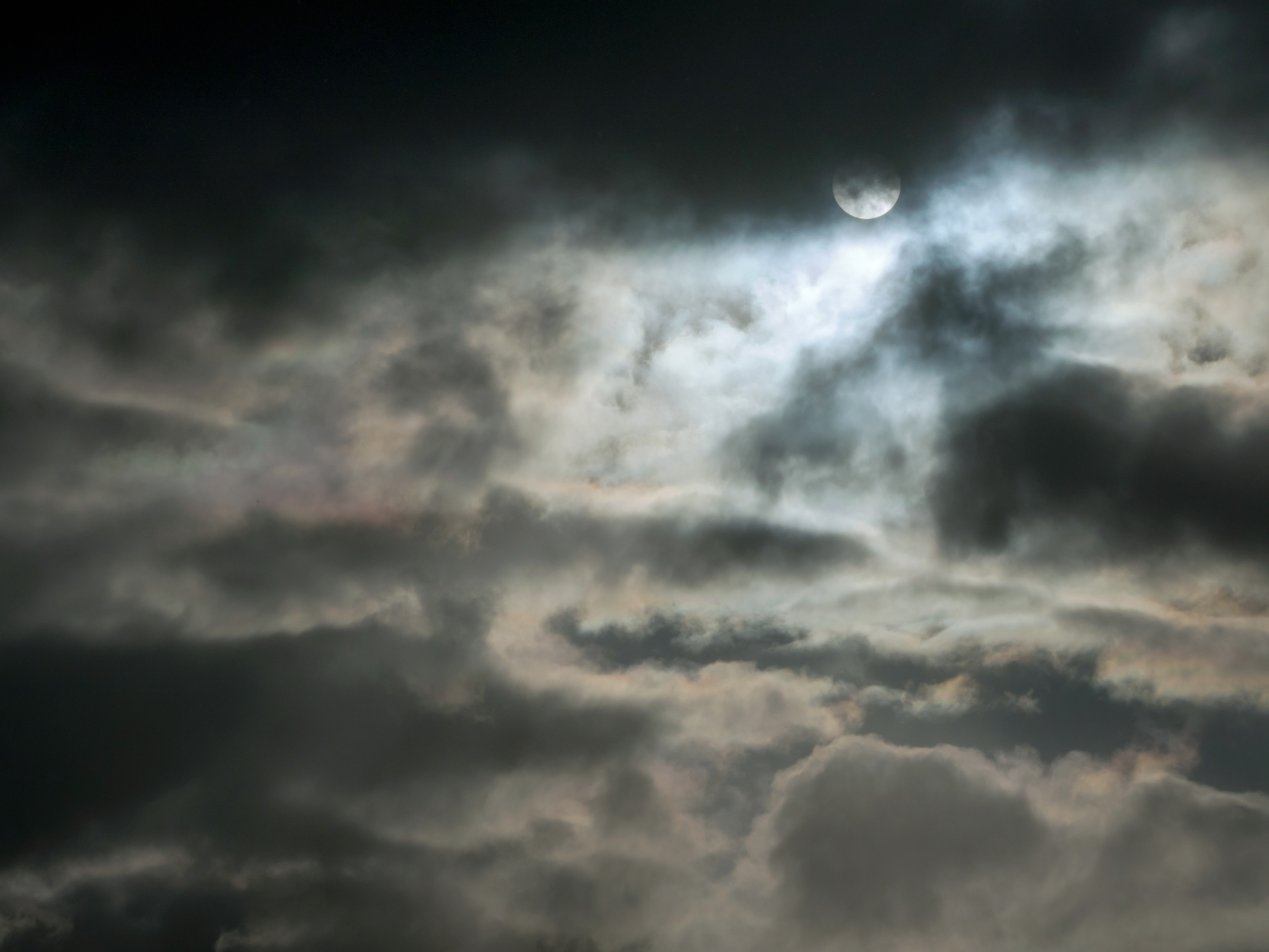 Rainbow-colored/iridescent clouds during a snowfall over Gåseberg, Lysekil Municipality, Sweden. The fringes of the clouds are so thin the water droplets in them produce rainbows. The photo is taken during some interesting weather in the afternoon so it is the sun you see and the dots are snowflakes.